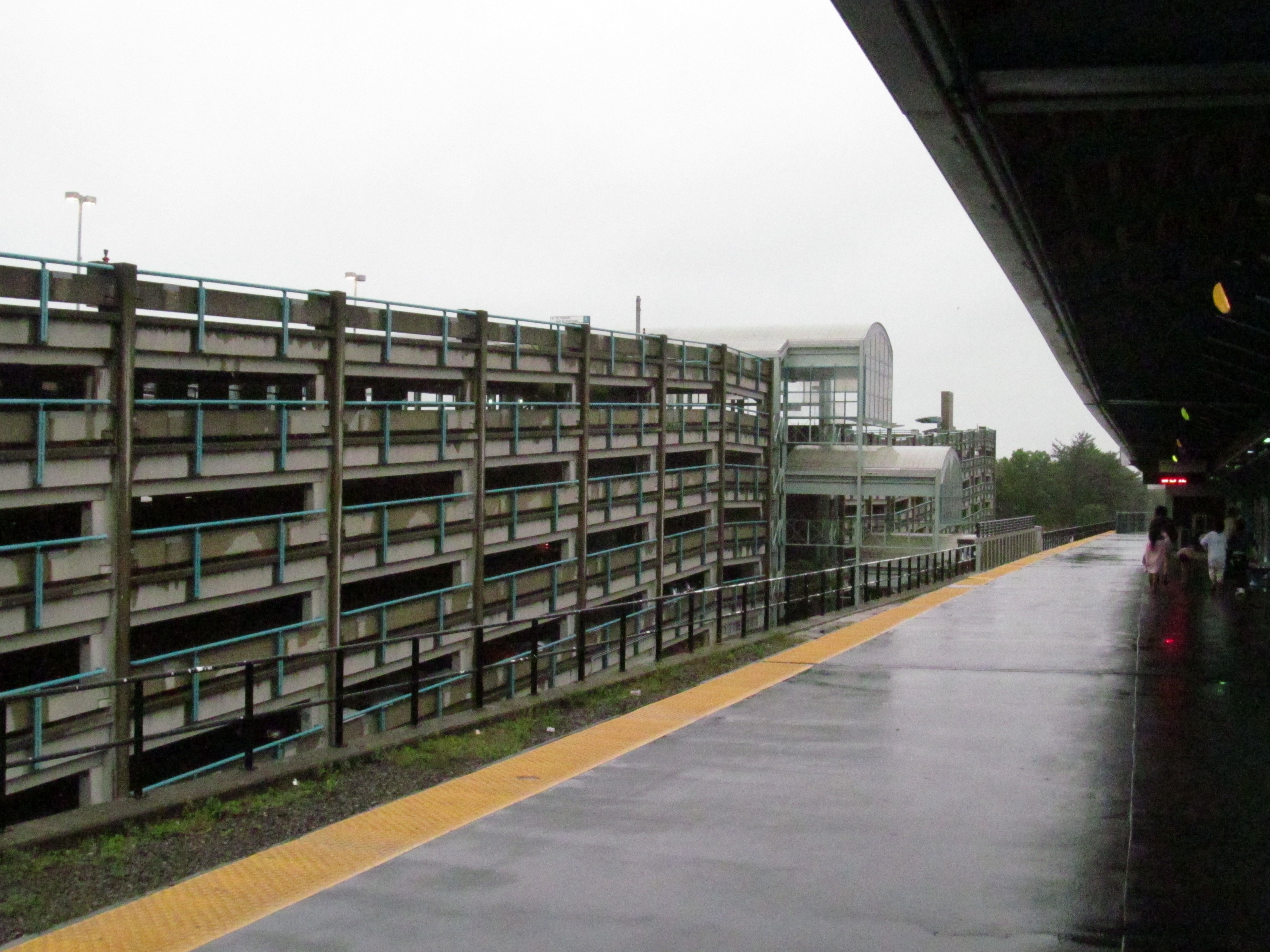 1992-built platform at parking garage at Lynn station